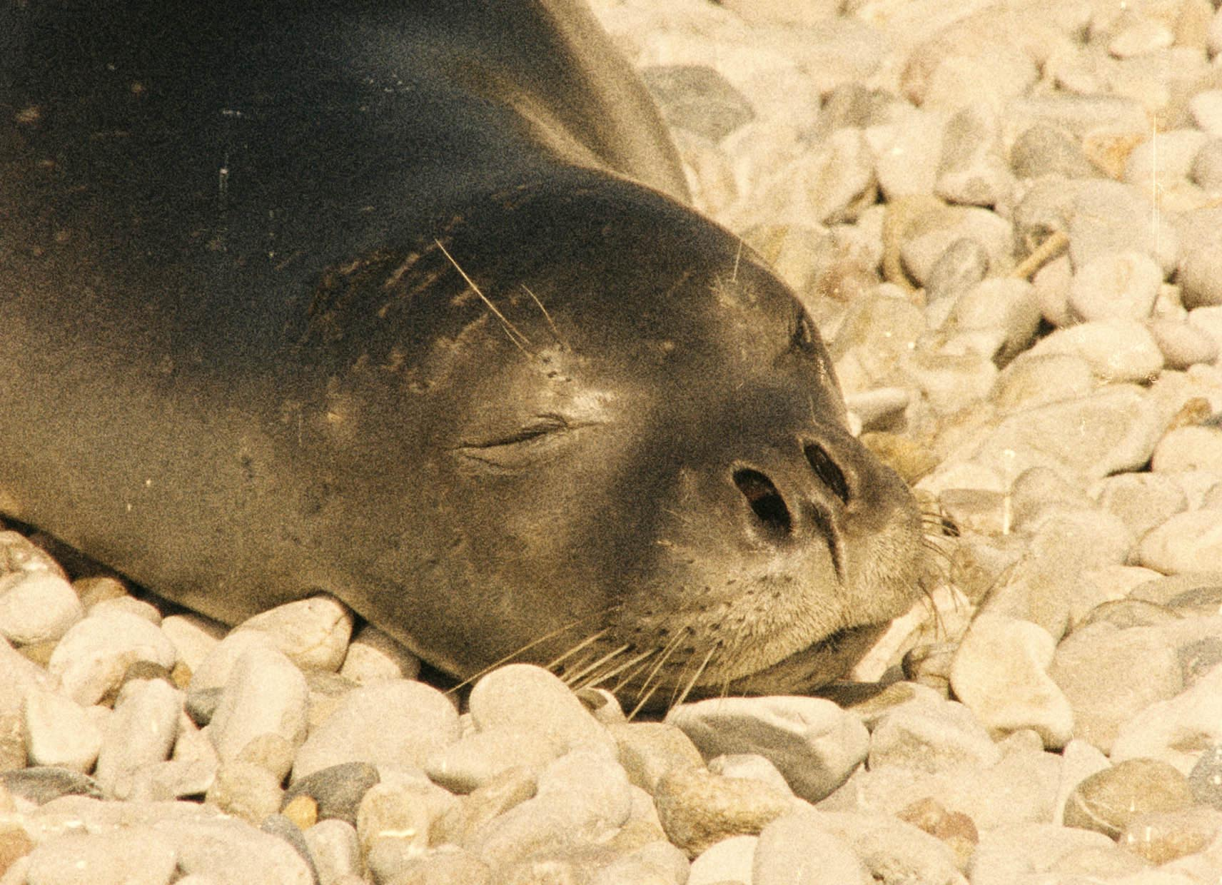 Still